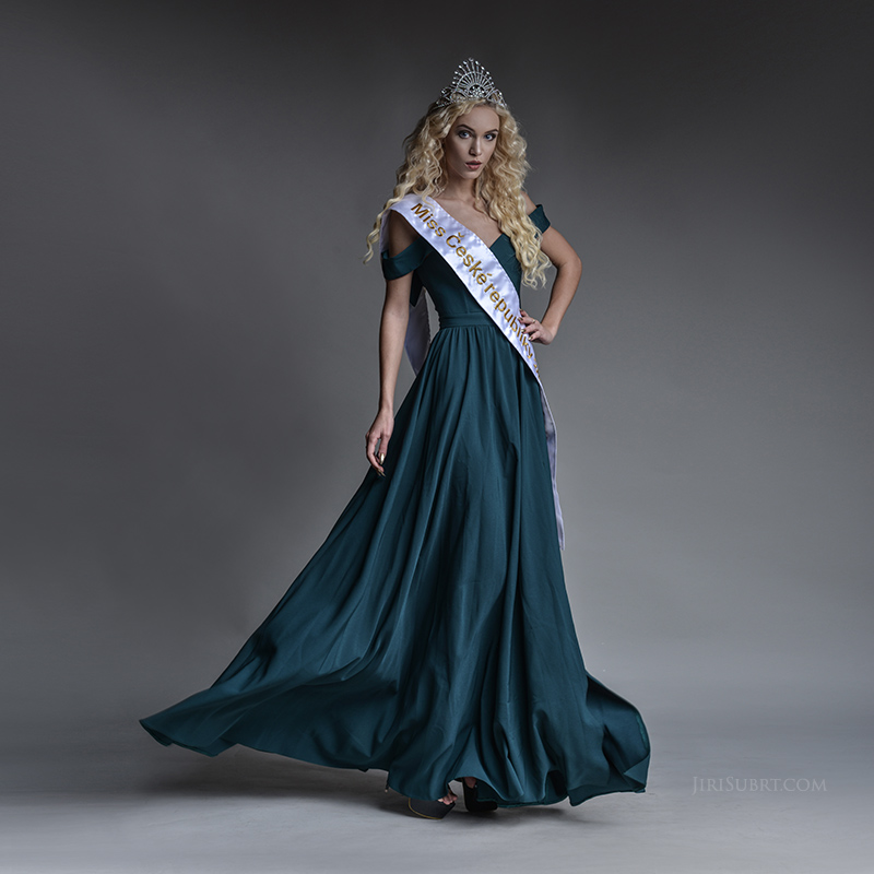 Iveta Maurerova. Czech model, winner of multiple national and international beauty pageants, member of production team of Miss Czech republic beauty pageant.